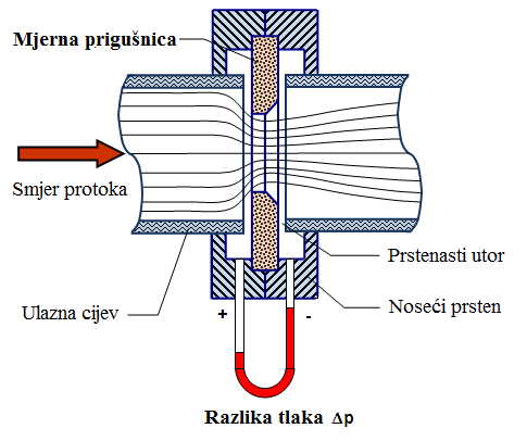 A drawing of measuring muffler, with labels on Serbian language.